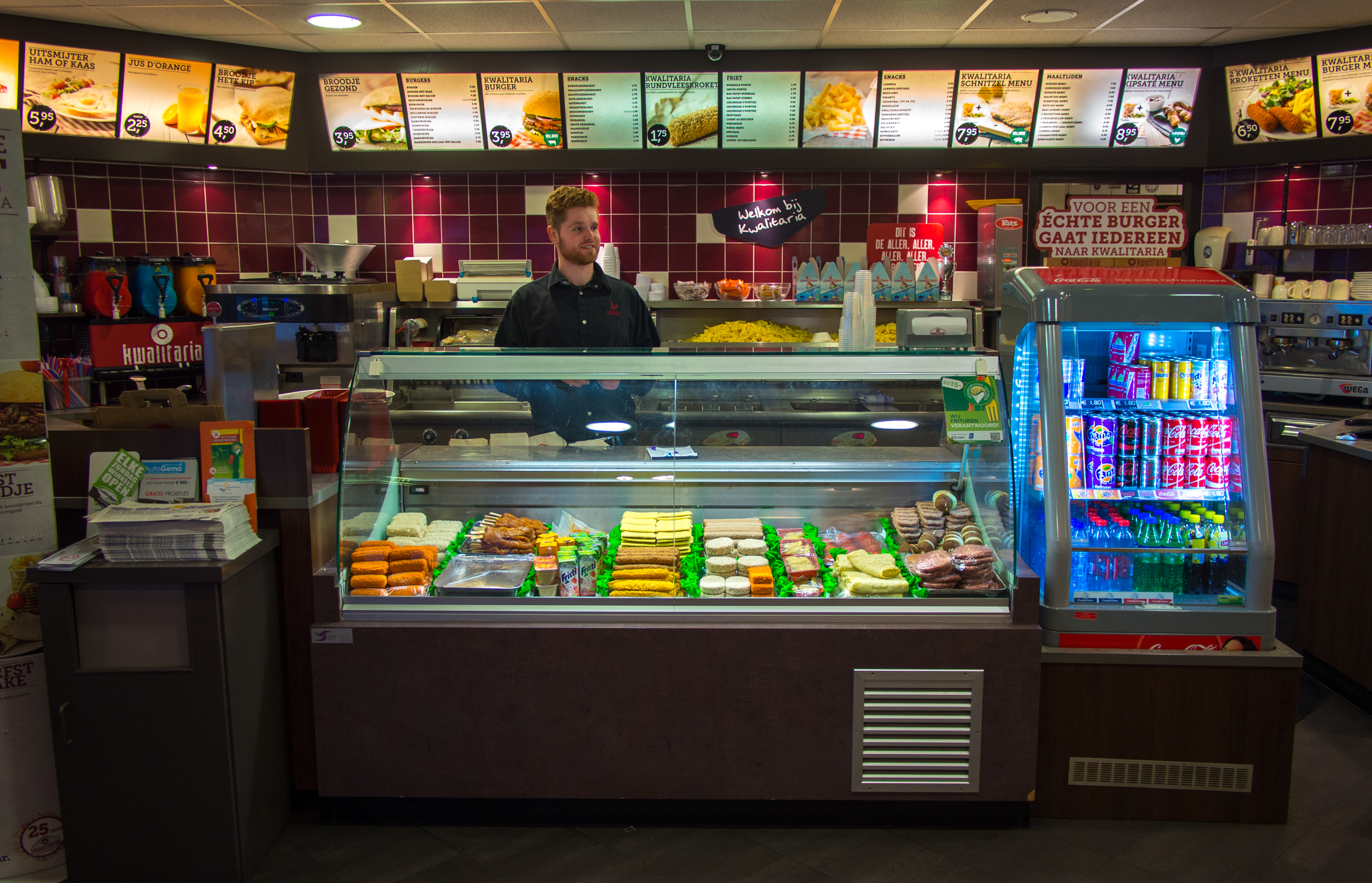 Interior of a snackbar in the Netherlands.